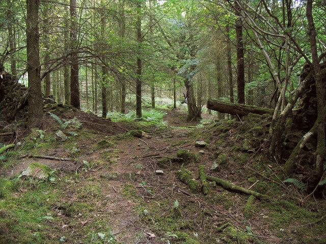 Trail through break in forest wall near Gelli Aur. The Gelli Aur estate has many of these walls running through the land around it. They are not the usual low agricultural boundaries designed to contain cattle, they are head height or more. They are not avidly maintained and here we see a track pass through a huge hole in one, only to become indistinct and disappear shortly afterward. There seem to be no decent trails in the southeast part of this forest.